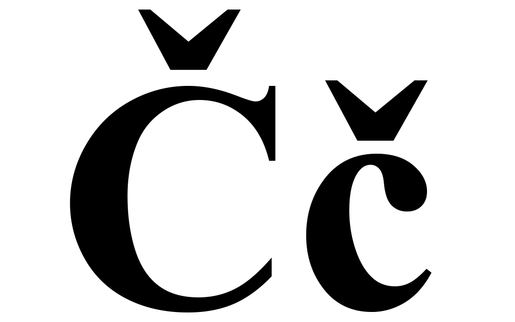 latin Cc with caron